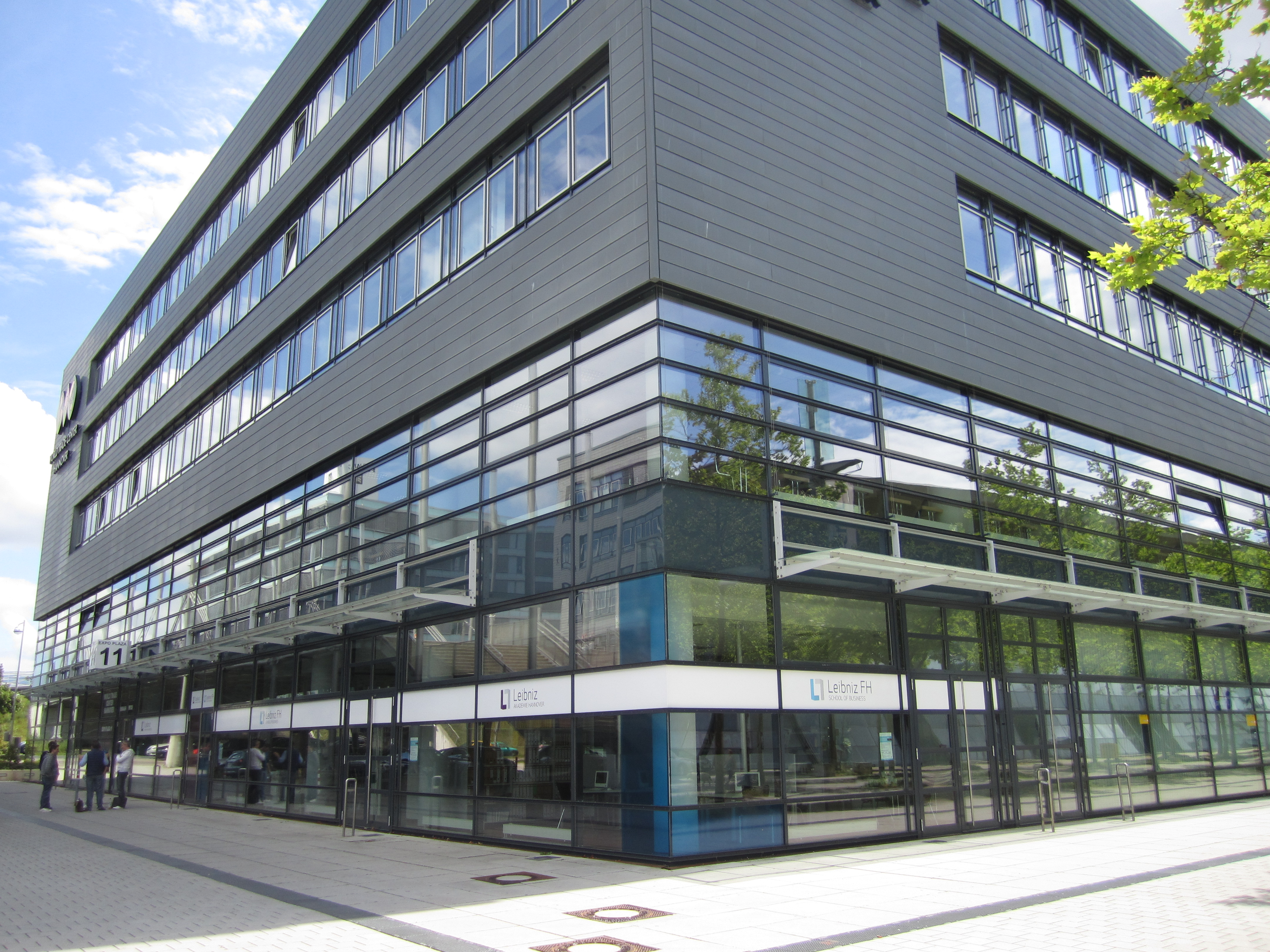 Leibniz Business school, Hanover, Germany.